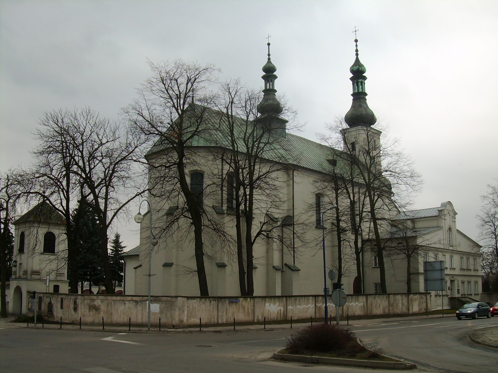 The monastery of Franciscans in Radomsko (Poland).